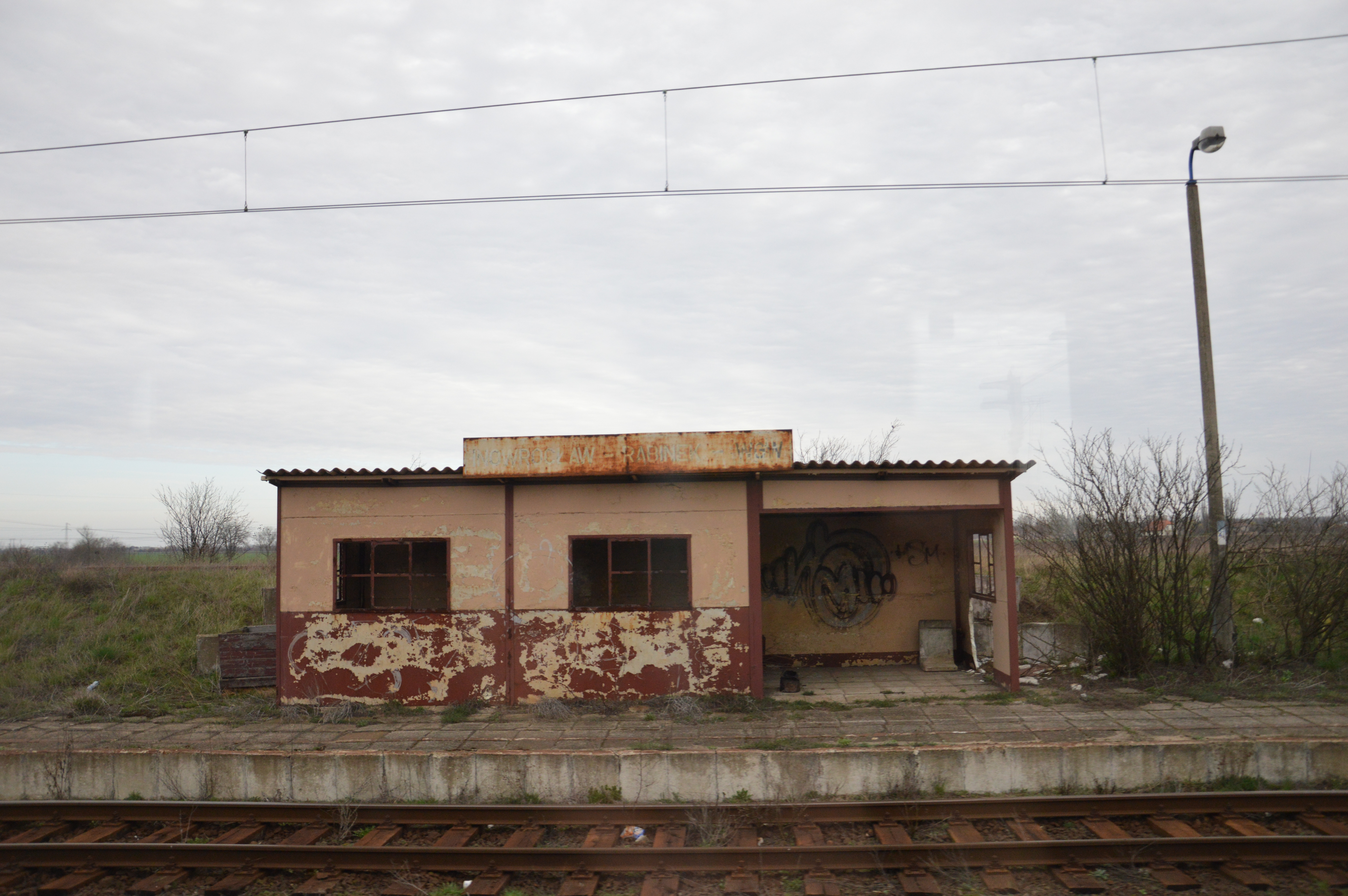 Railway station for depot service.